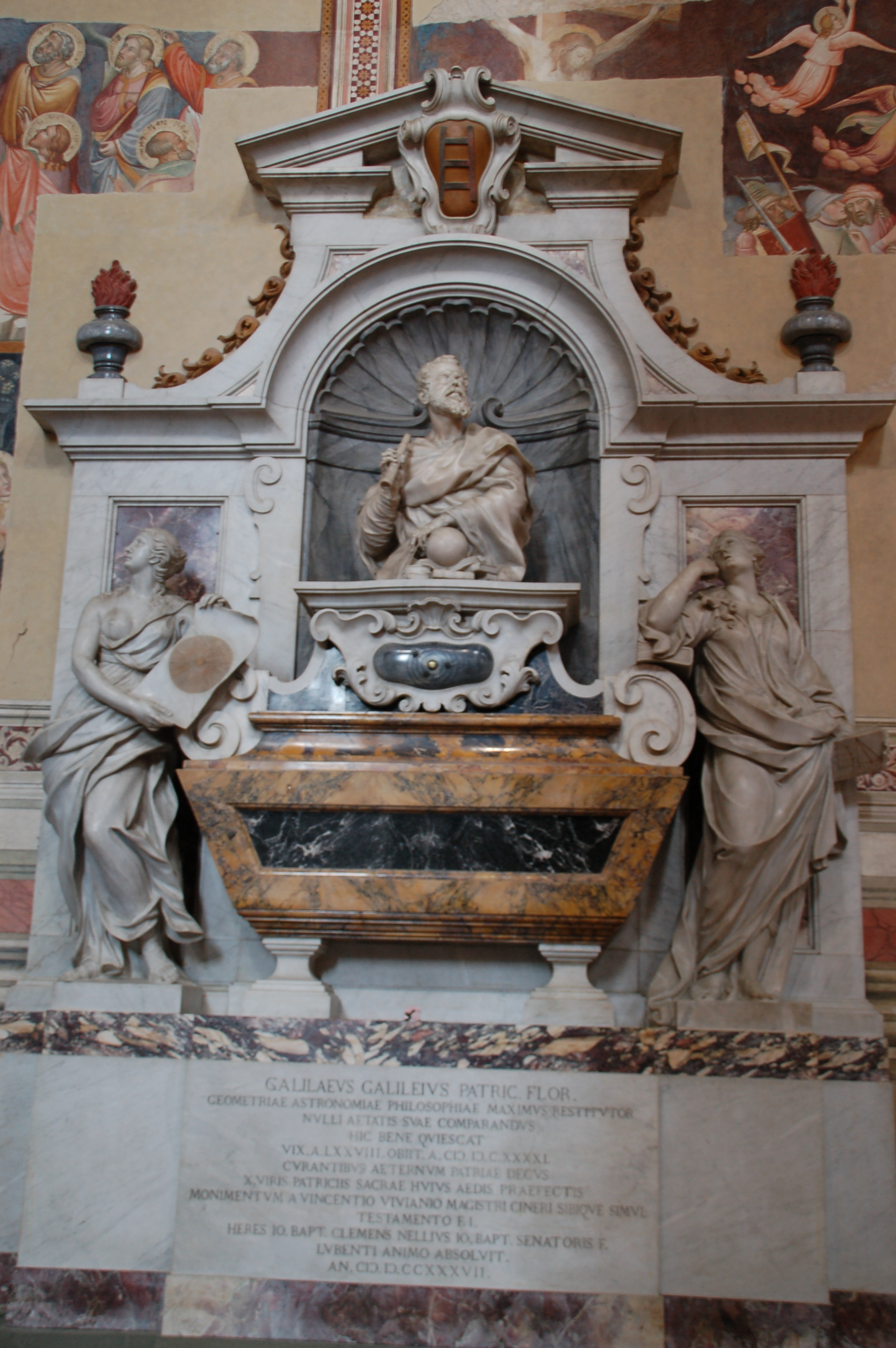 Photographer: Melissa Ranieri